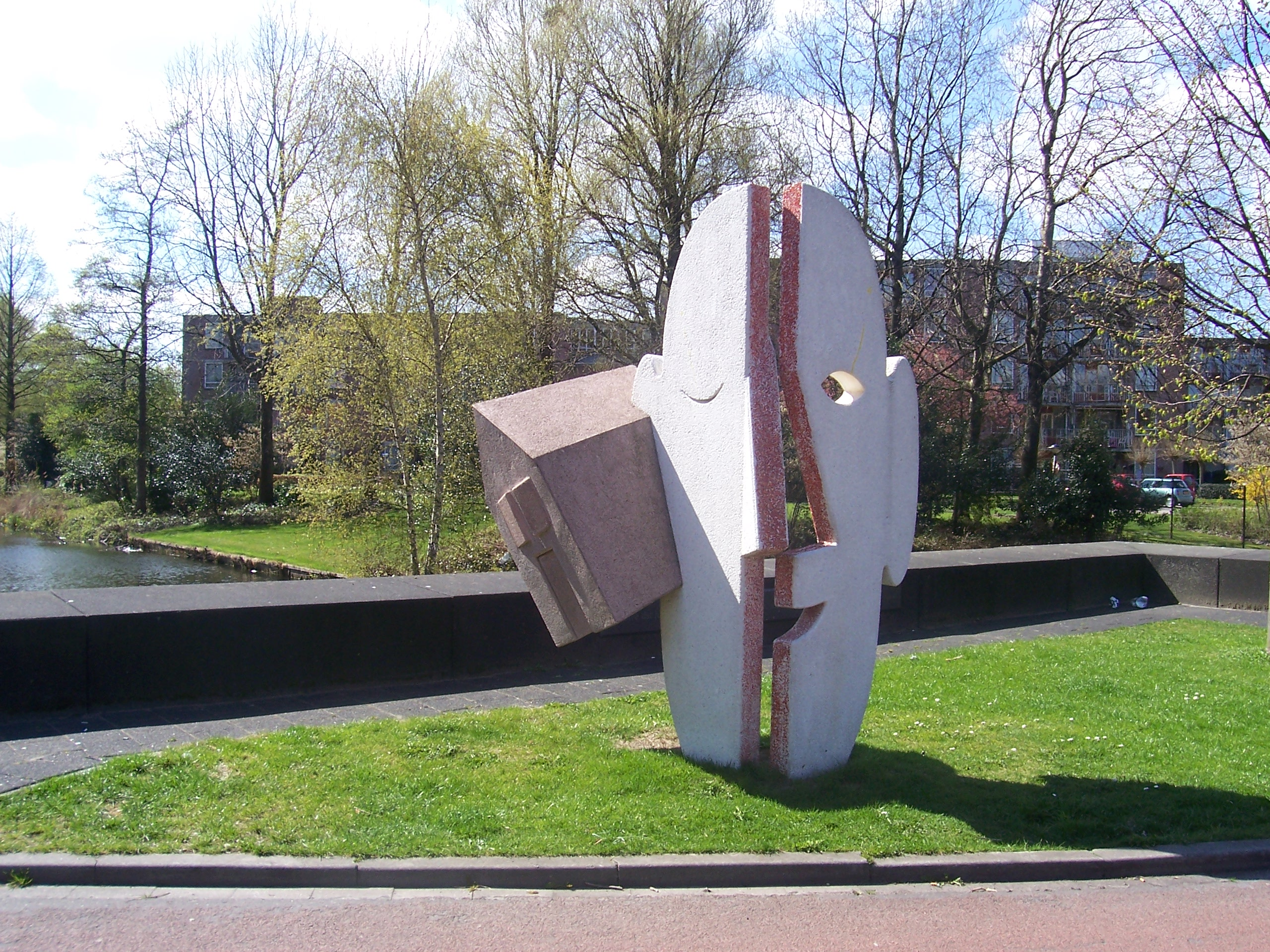 part one Wendela Gevers Deynoot